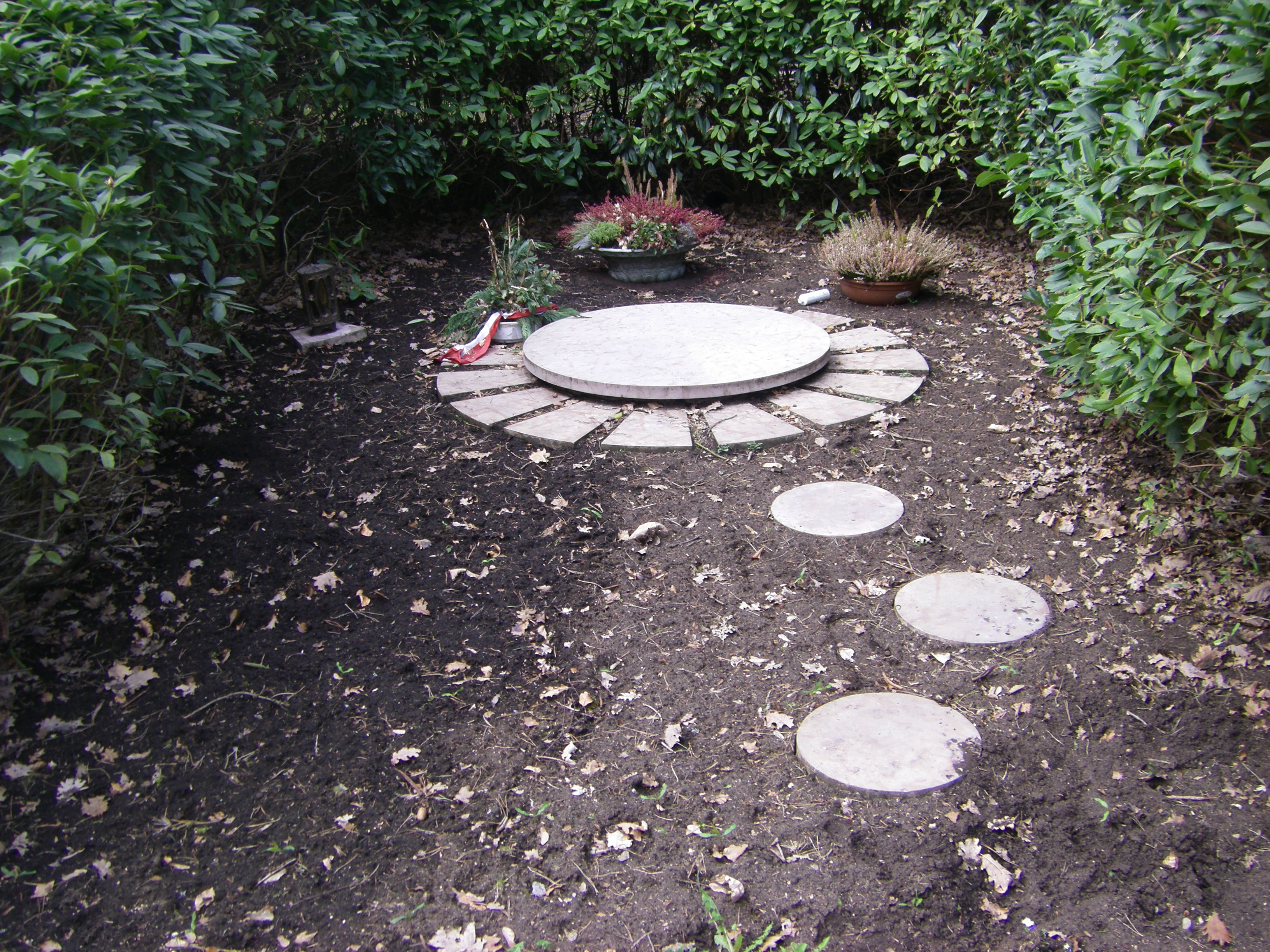 Family Grave of Bruno H. Schubert, honorary citizen of Frankfurt am Main, his wife Ingeborg and daughter Renate, on Waldriedhof Oberrad.